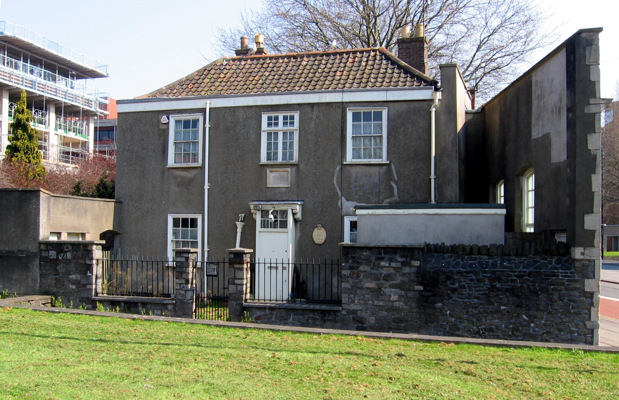 House in Bristol, UK where Thomas Chatterton was reputedly born and schooled.